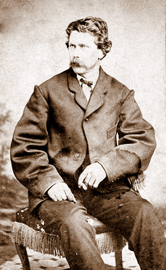 CDV of Timothy H. O'Sullivan with imprint of F.G. Ludlow, Carson City, Nevada Territory on verso. Taken between 1871–74 while O'Sullivan was the official photographer for the Wheeler Expedition.